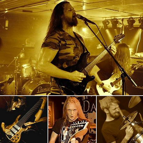 Live November 2015.